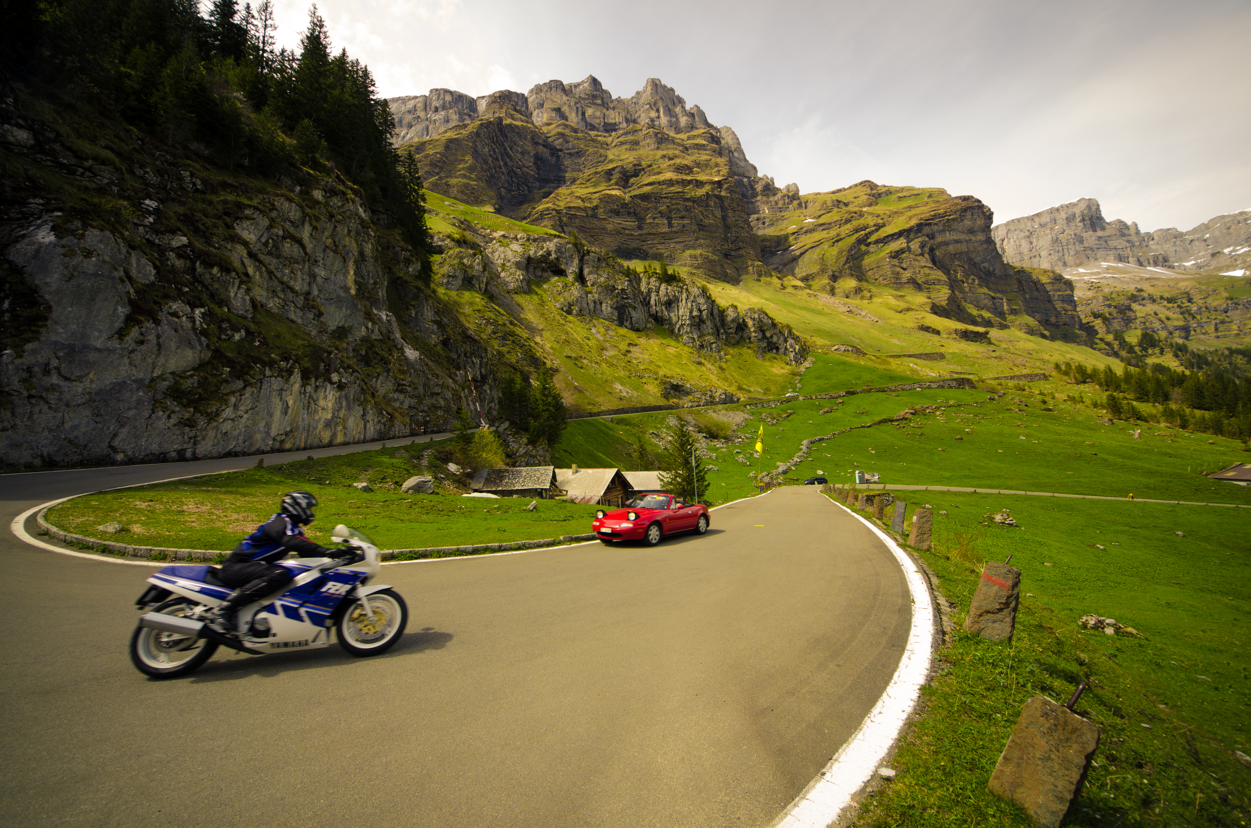 Klausen Pass road at Jägerbalm (Uri)